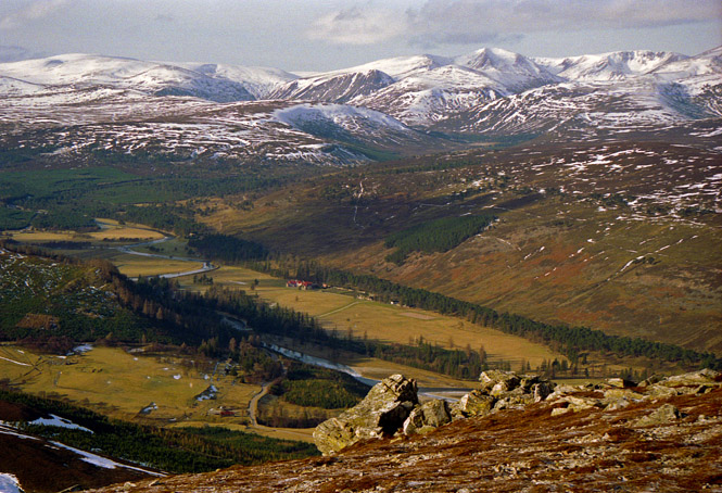 The Cairngorms View from the summit of Morrone, the river Dee and the red roofs of Mar Lodge can be seen in the valley below.